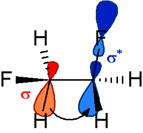 hyperconjugation as explanation for the gauche effect in 1,2-Difluorethane